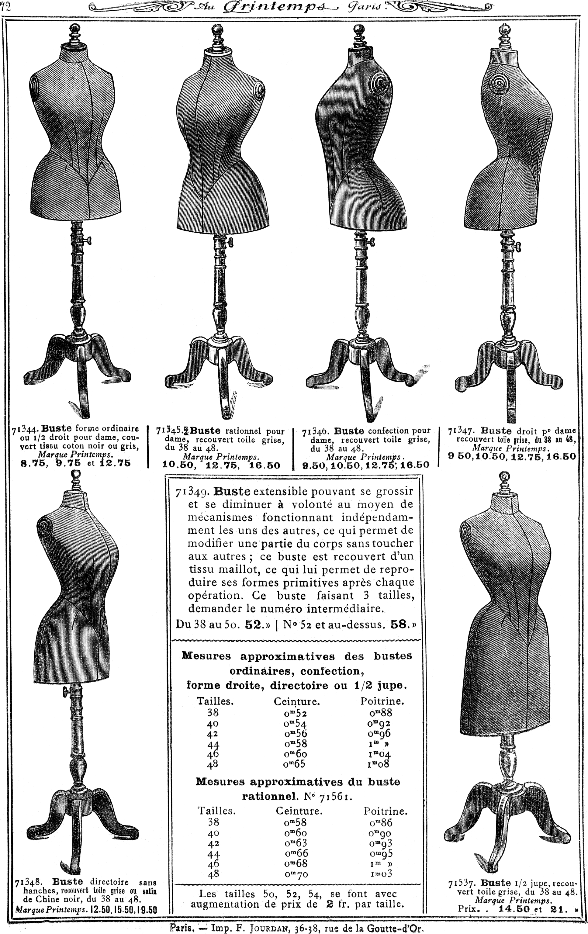 different dress forms and a table of measurements